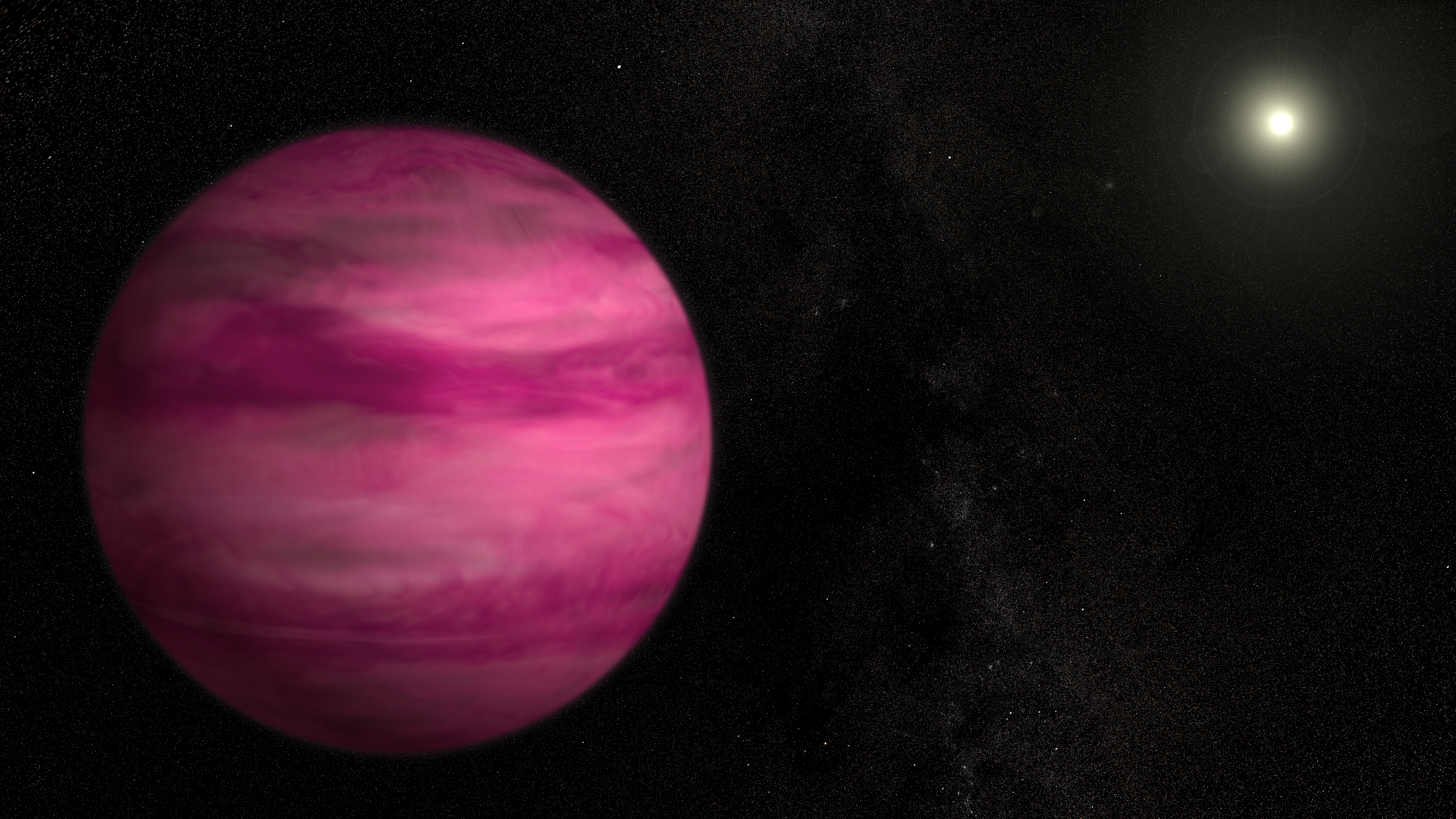 Glowing a dark magenta, the newly discovered exoplanet GJ 504b weighs in with about four times Jupiter's mass, making it the lowest-mass planet ever directly imaged around a star like the sun.